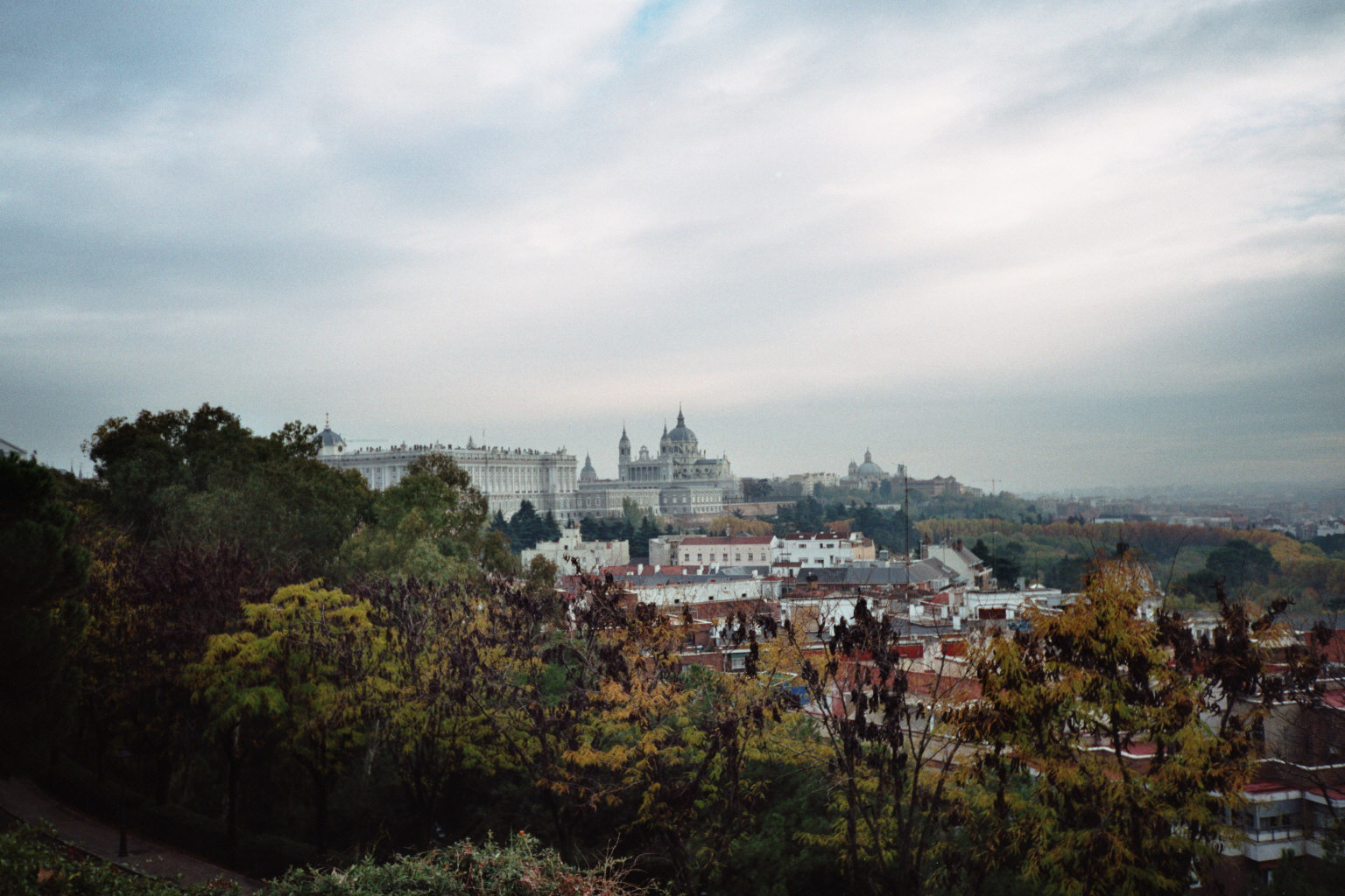 Description: View of la Catedral de la Almudena and the Royal Palace, in Madrid. Source: Self-made, I release it into the public domain.